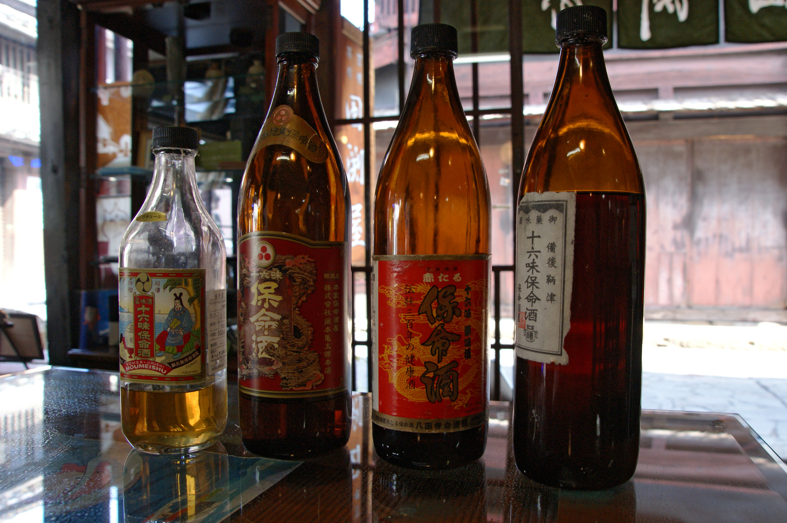 Tomonoura, Fukuyama, Hiroshima Prefecture, Japan